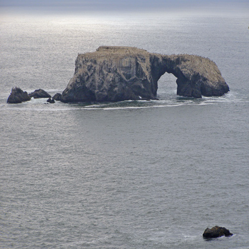 Photographer:self Subject: Arched Rock, north of Bodega Head, Calif.